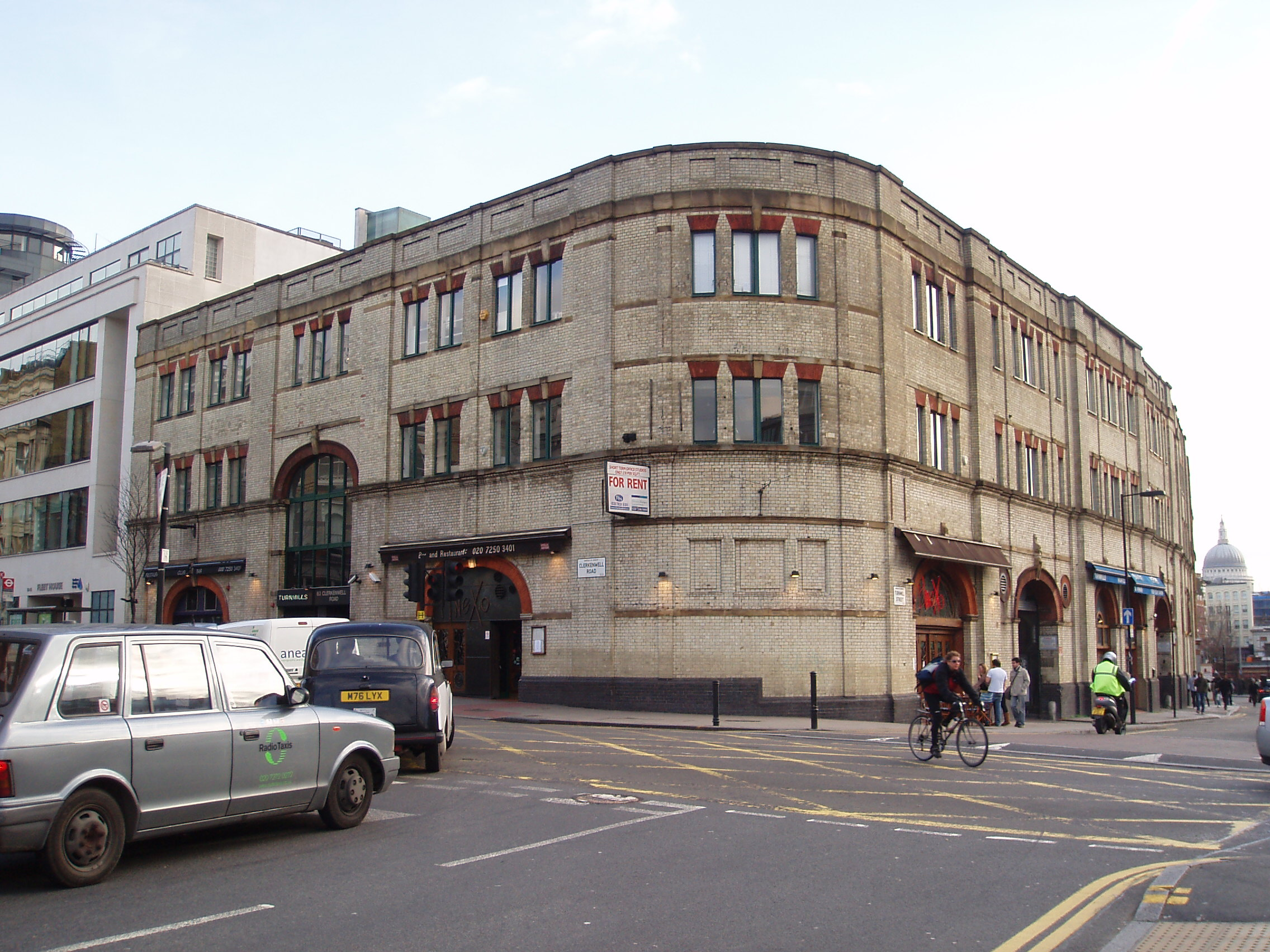 Outside Turnmills nightclub venue, corner of Farringdon Lane and Clerkenwell Road